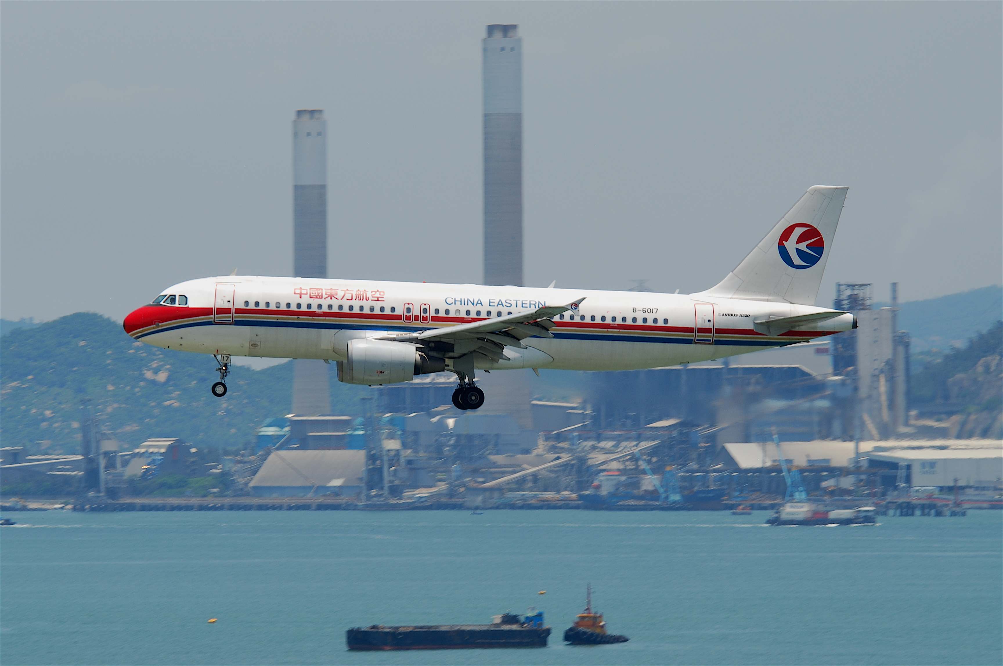 China Eastern Airlines Airbus A320-214; B-6017@HKG;04.08.2011/615ic